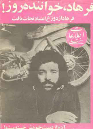 Picture of "Farhad Mehrad", famous Persian singer, with this caption: "Farhad rehabilitated from drug addiction", on the cover of "Weekly Ettelaat" magazine.